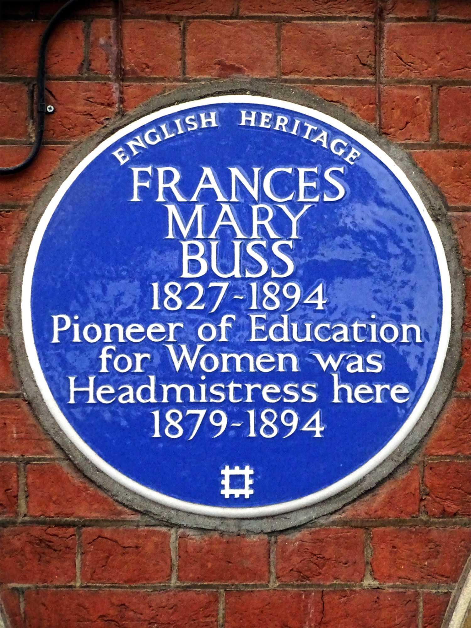 Blue plaque erected in 2000 by English Heritage at Camden School for Girls, Sandall Road, Kentish Town, London NW5 2DB, London Borough of Camden